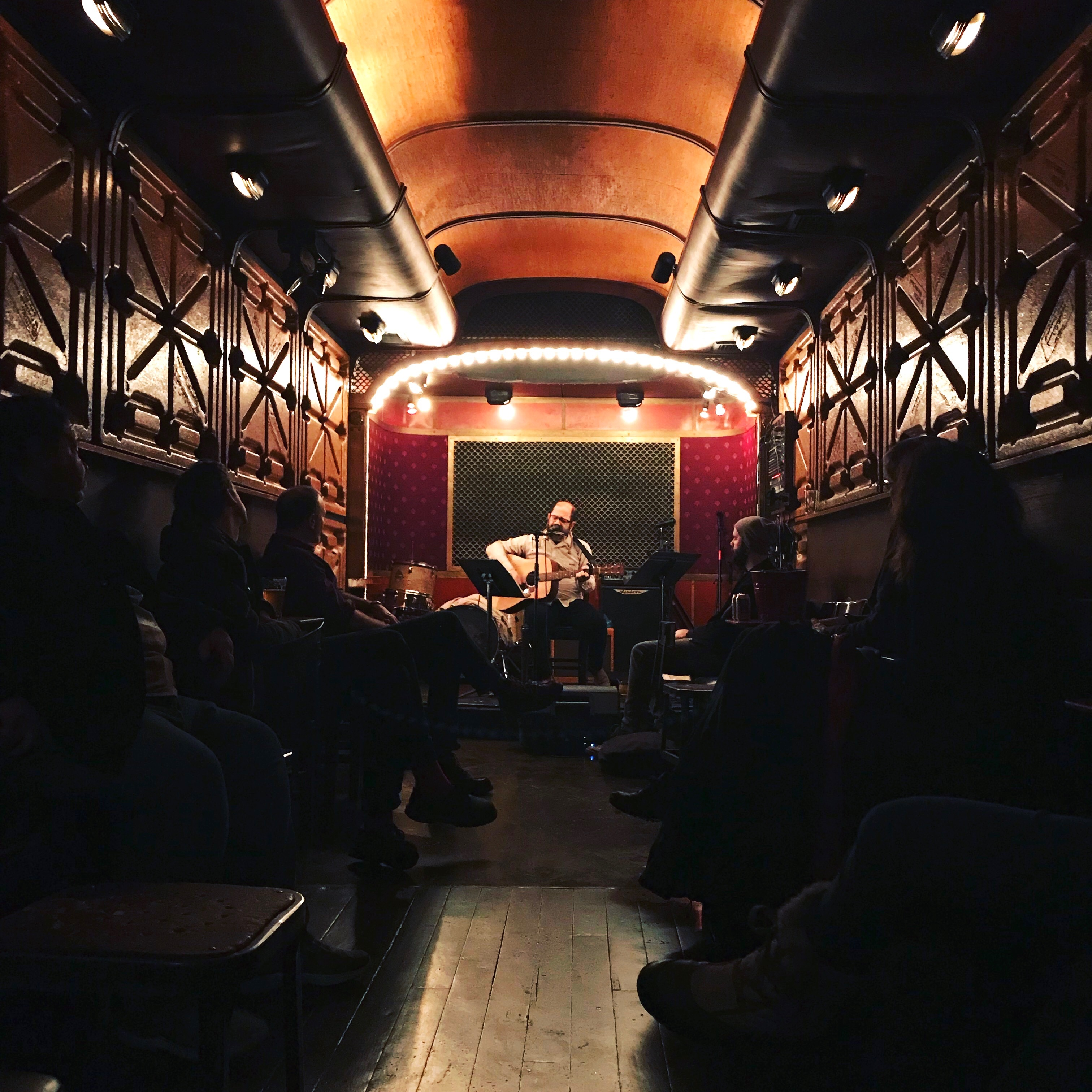 singer-songwriter Jeff London